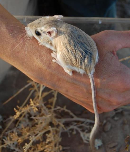 A female Dipodomys merriami, upon release to the wild after a brief period of observation. Capture was conducted as part of a biological survey for the State of California near the Salton Sea.